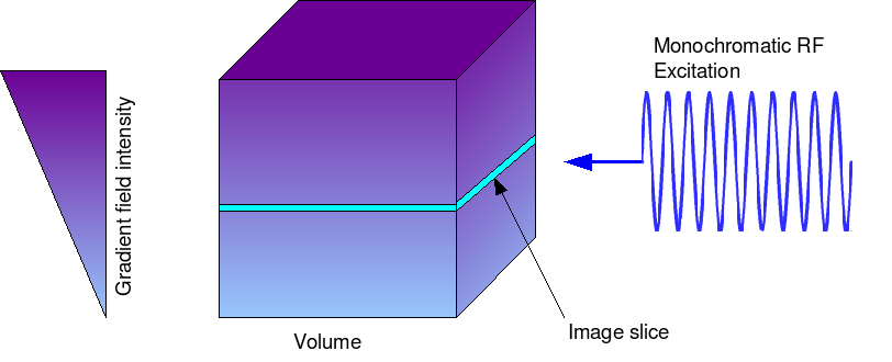 Slice selection in MRI.